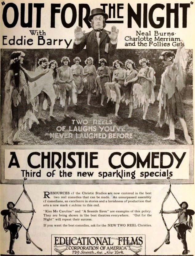 Advertisement for the American comedy short film Out for the Night (1920) with Eddie Barry, on page 11 of the August 14, 1920 Exhibitors Herald.